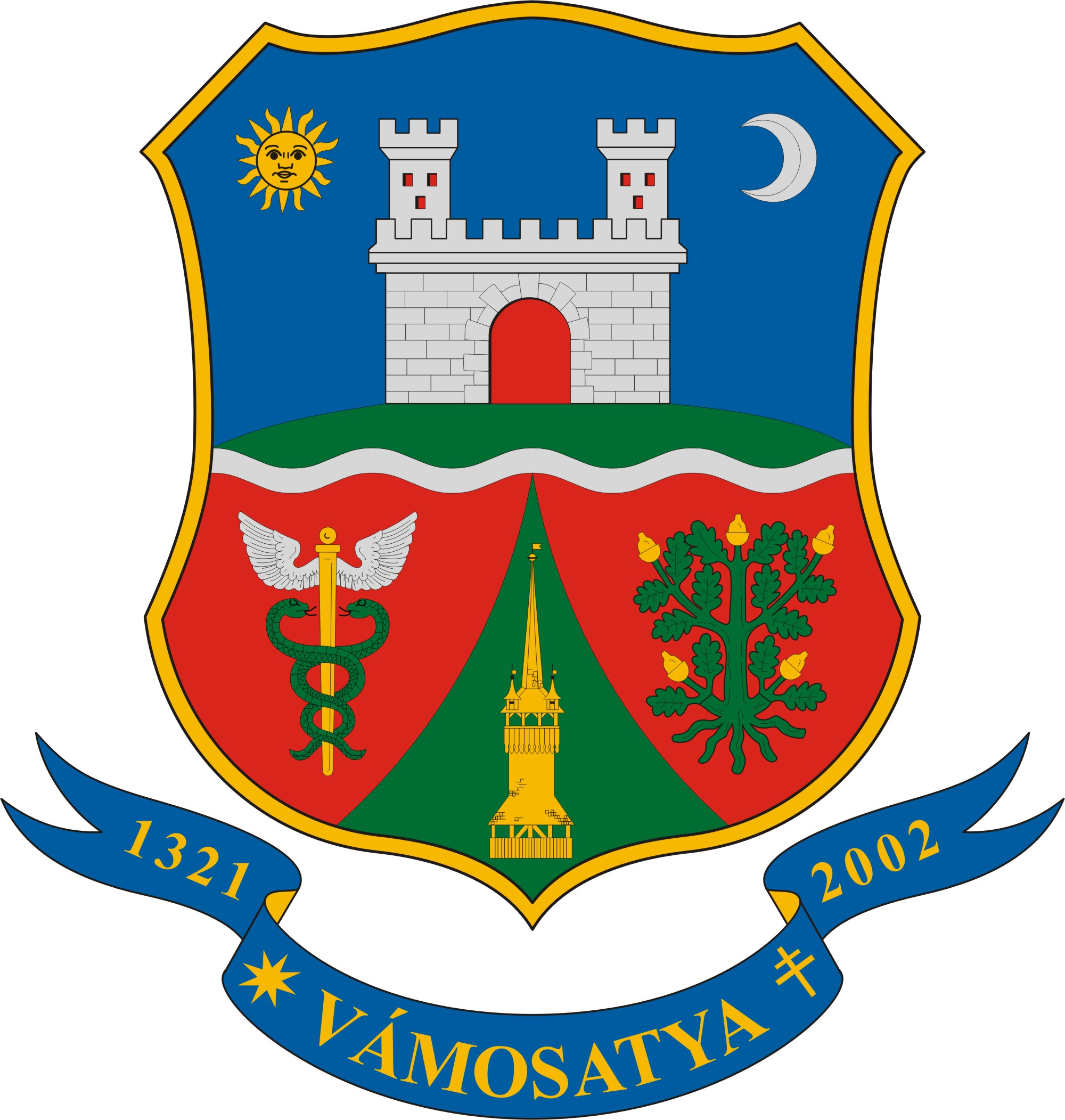 Coat of arms of Vámosatya, Hungary